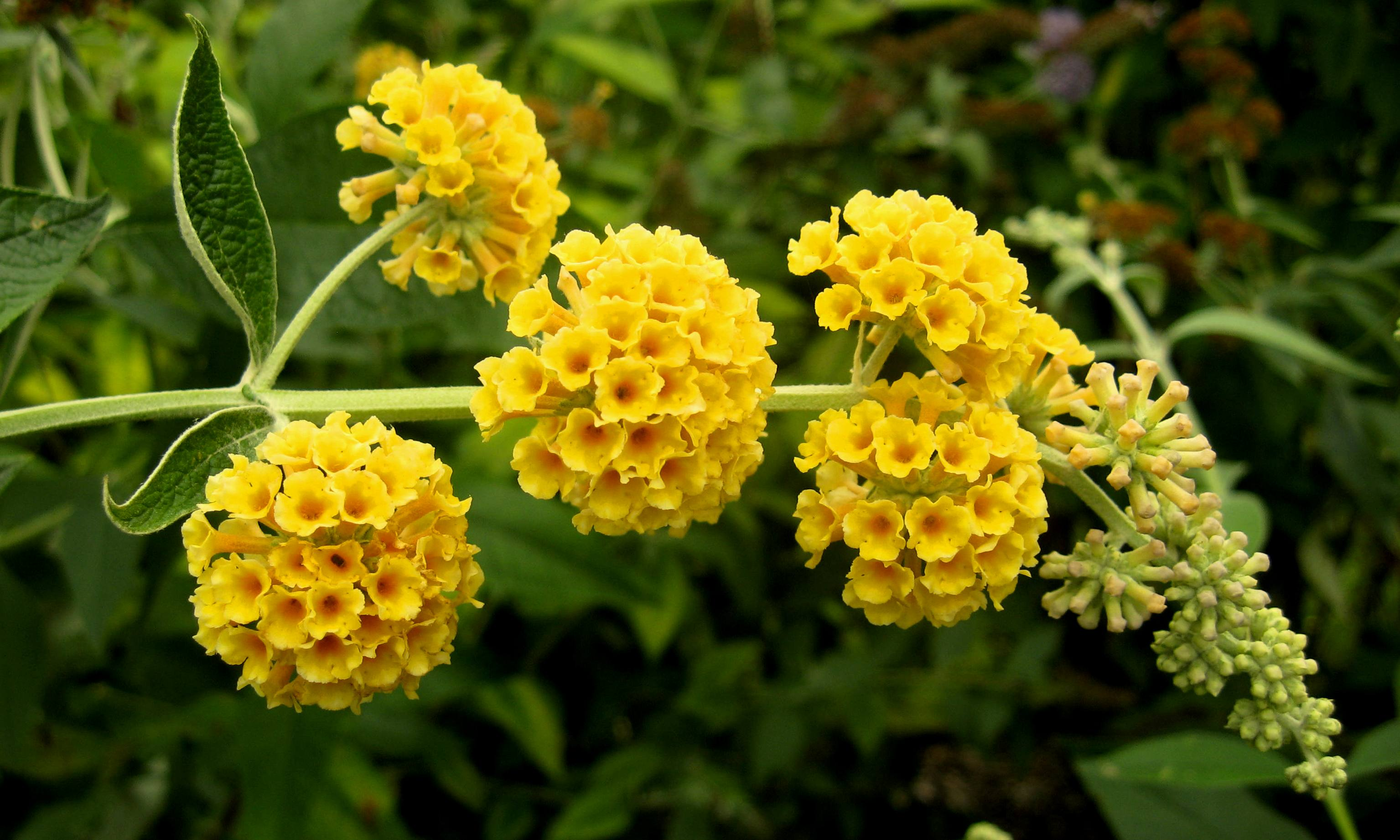 Photo taken at Longstock Park, UK, August 2012.